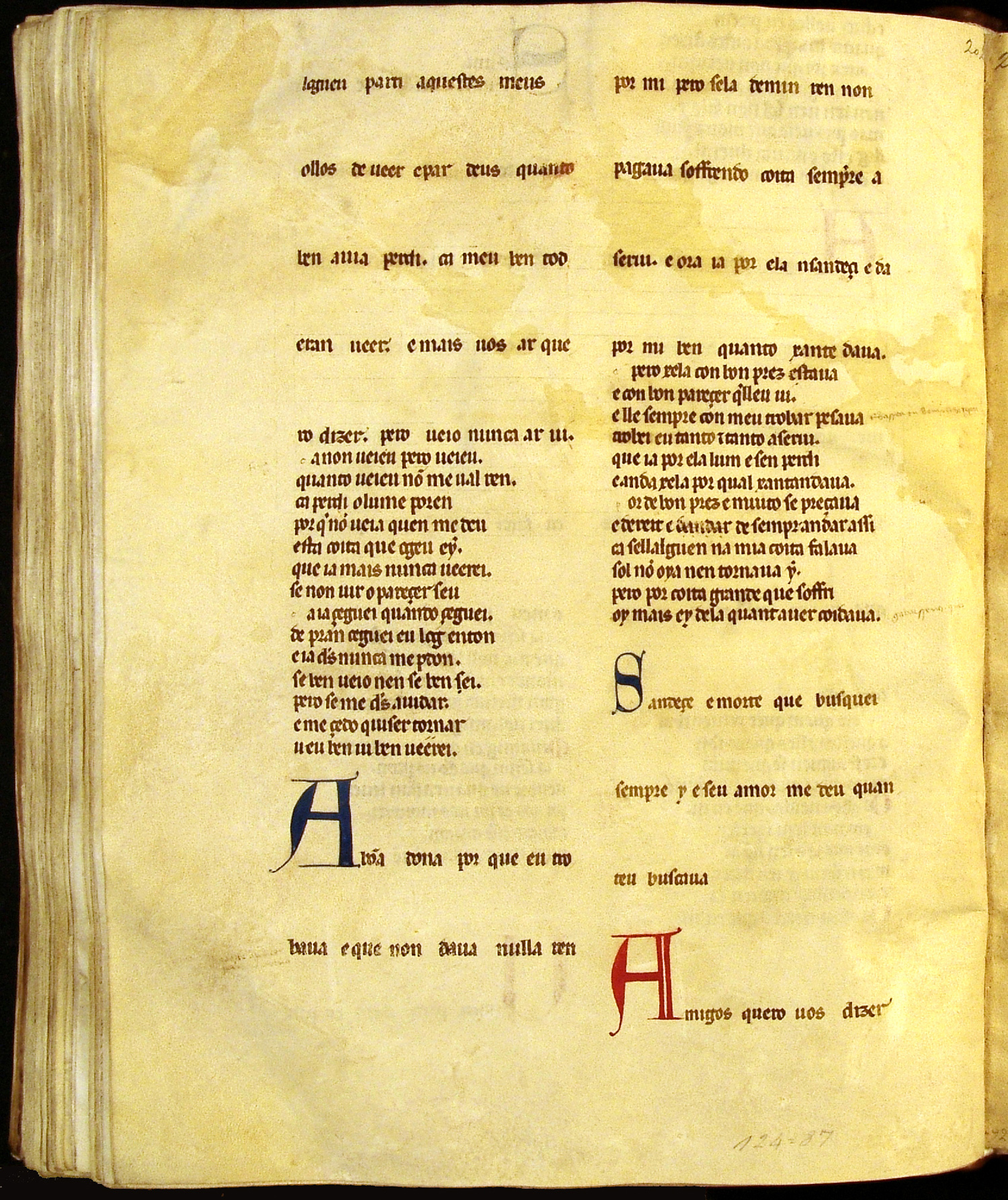 Cancioneiro da Ajuda manuscripts